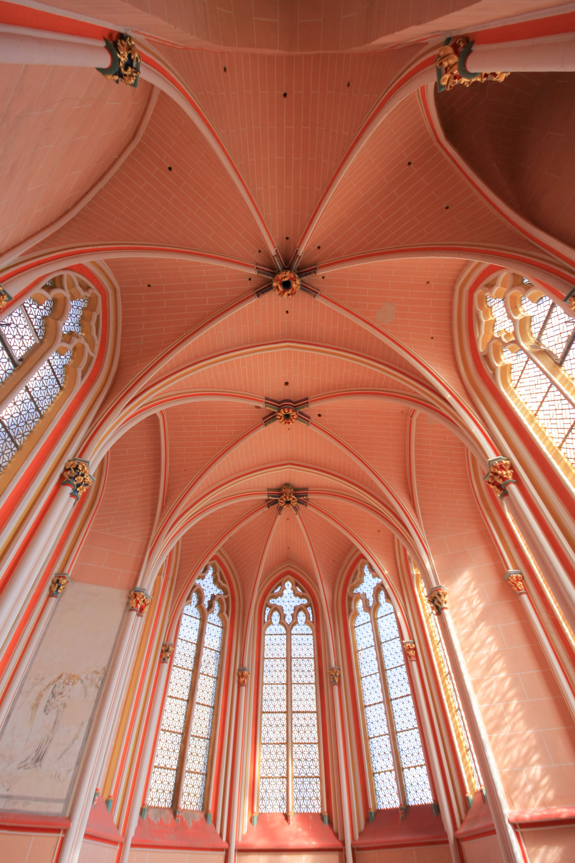 Chapel, Marburger Schloss